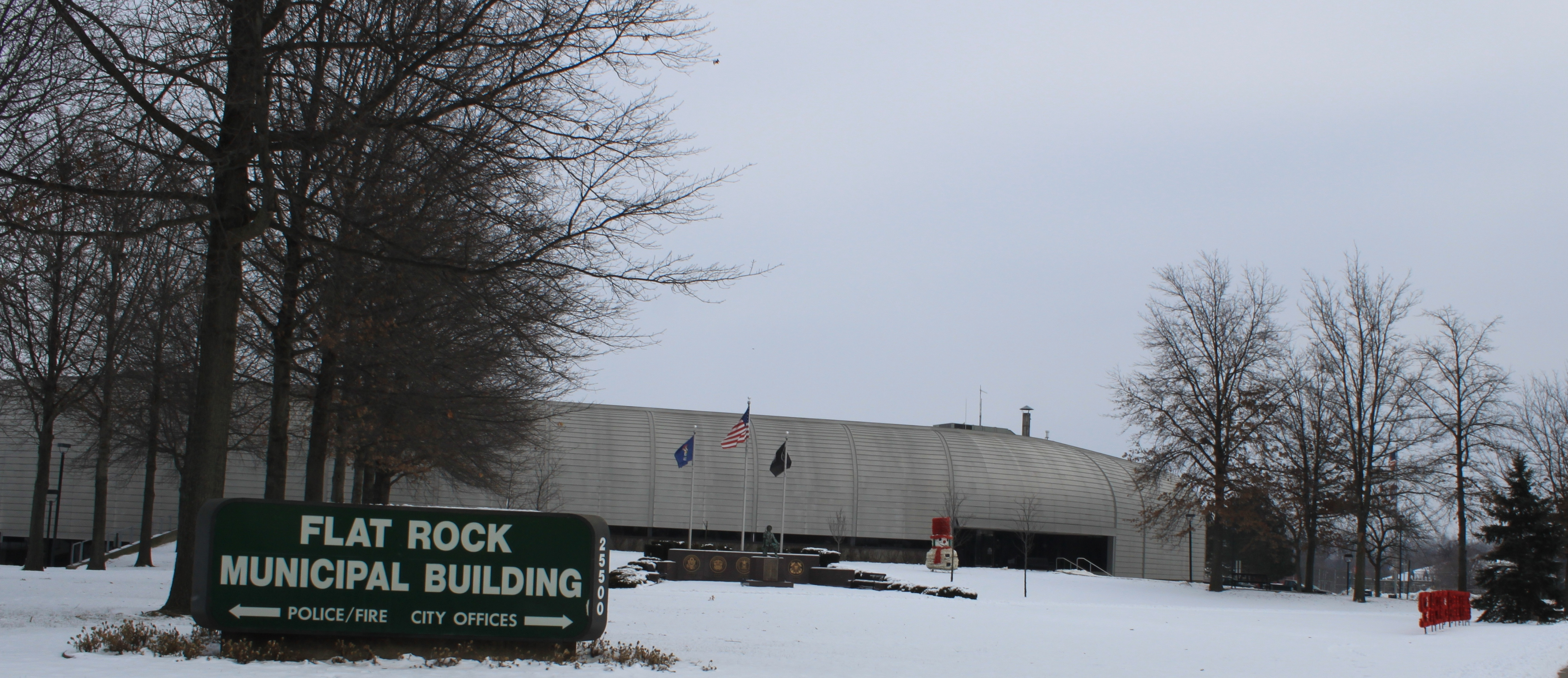 Flat Rock Municipal Building, 25500 Gibraltar Road, Flat Rock Michigan